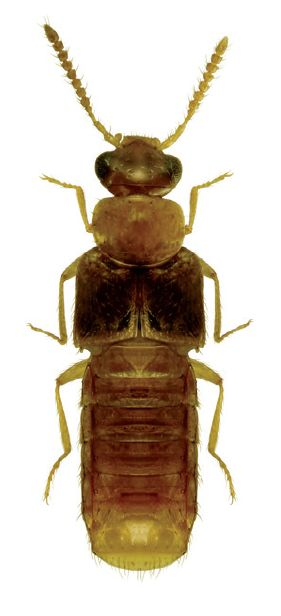 Dorsal view of Gyrophaena (G.) involuta (apical part of abdomen removed).